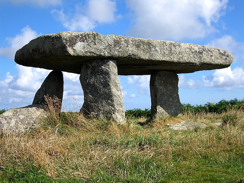 Lanyon Quoit - Megalith - Cornwall - UK